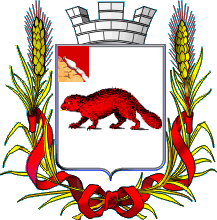 Coat of Arms of Bobrov (Voronezh oblast) 1859